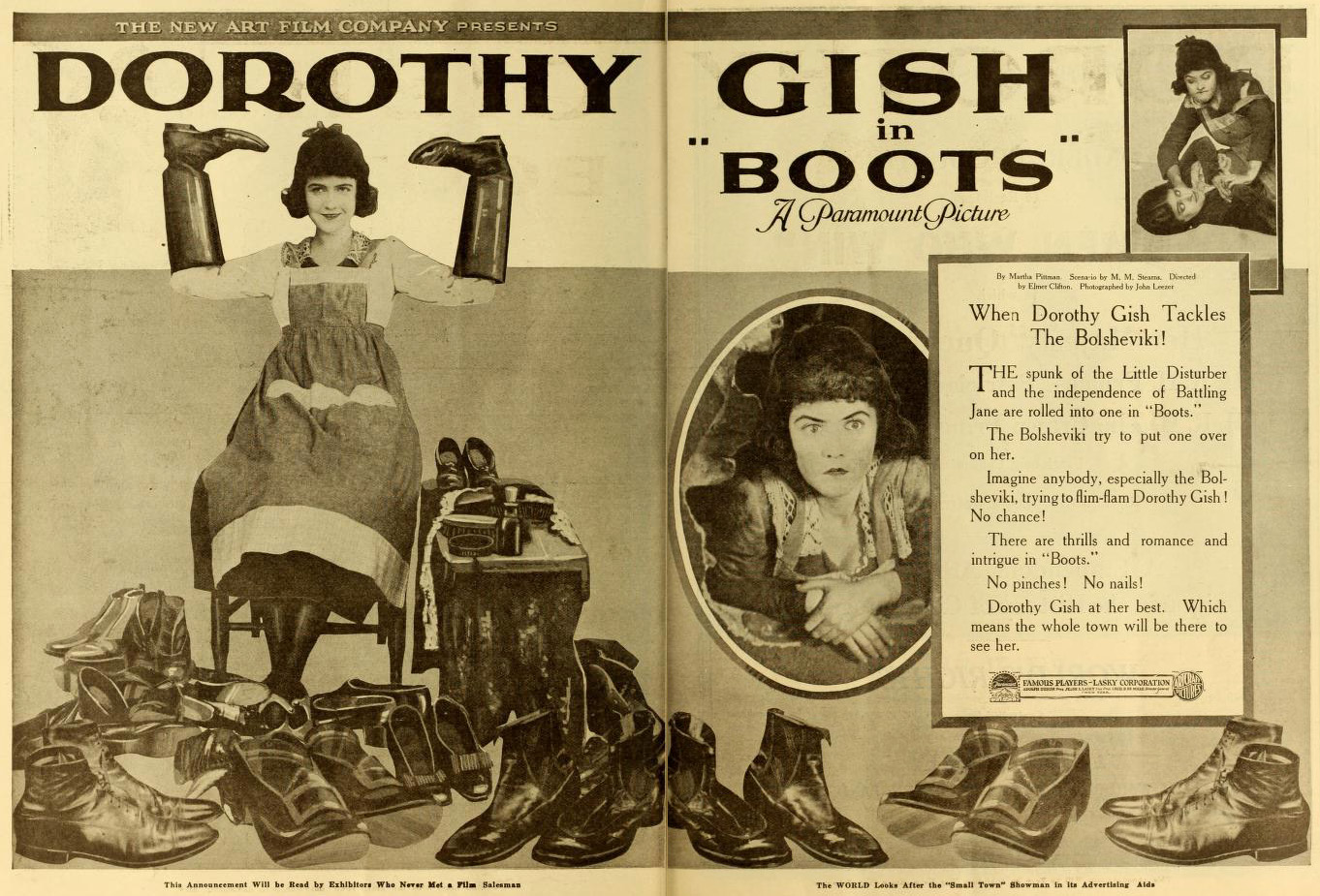 Advertisement in Moving Picture World, March 1919 for the American comedy film Boots (1919).